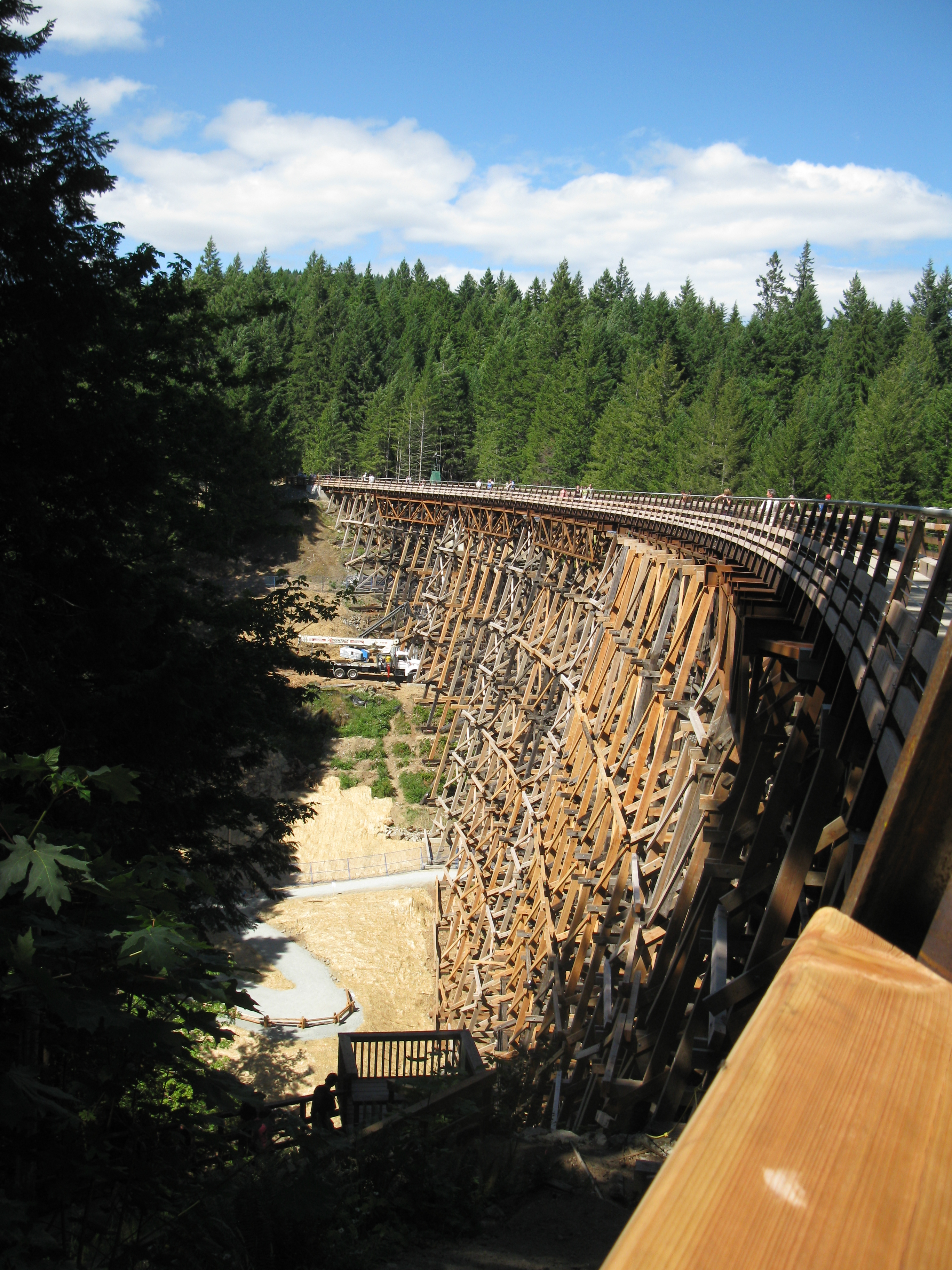 restored Kinsol trestle looking northwards